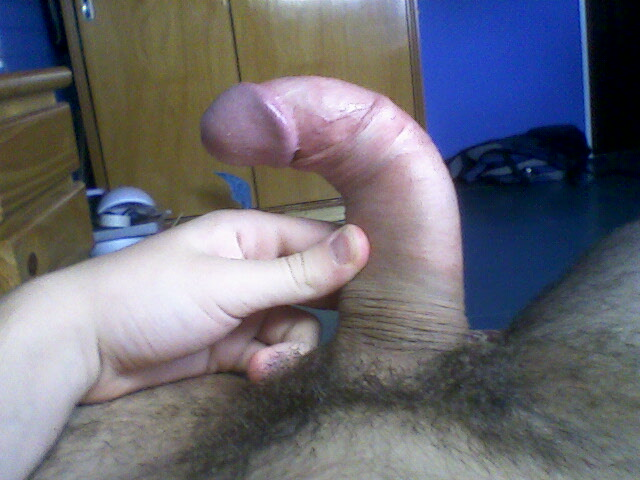 Picture of an erect penis curved to the left due to an injury.